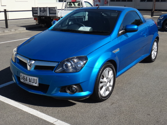 Not a very big seller here in Australia. I think they were only sold here for two, maybe three years before Holden gave up on it. Personally, I don't think Holden wanted the car, maybe it was pushed on them from GM and it also filled a spot before the all new Holden Astra Twin Top arrived. From the moment it hit the market, Holden made very little noise about the car and subsequently, most people didn't even know the car existed. Also, you'll notice from this view, the vehicles were sent to Australia with the Vauxhall 'V' grill, which also features on some Astra models and even the earlier Opel/Holden Calibra's!